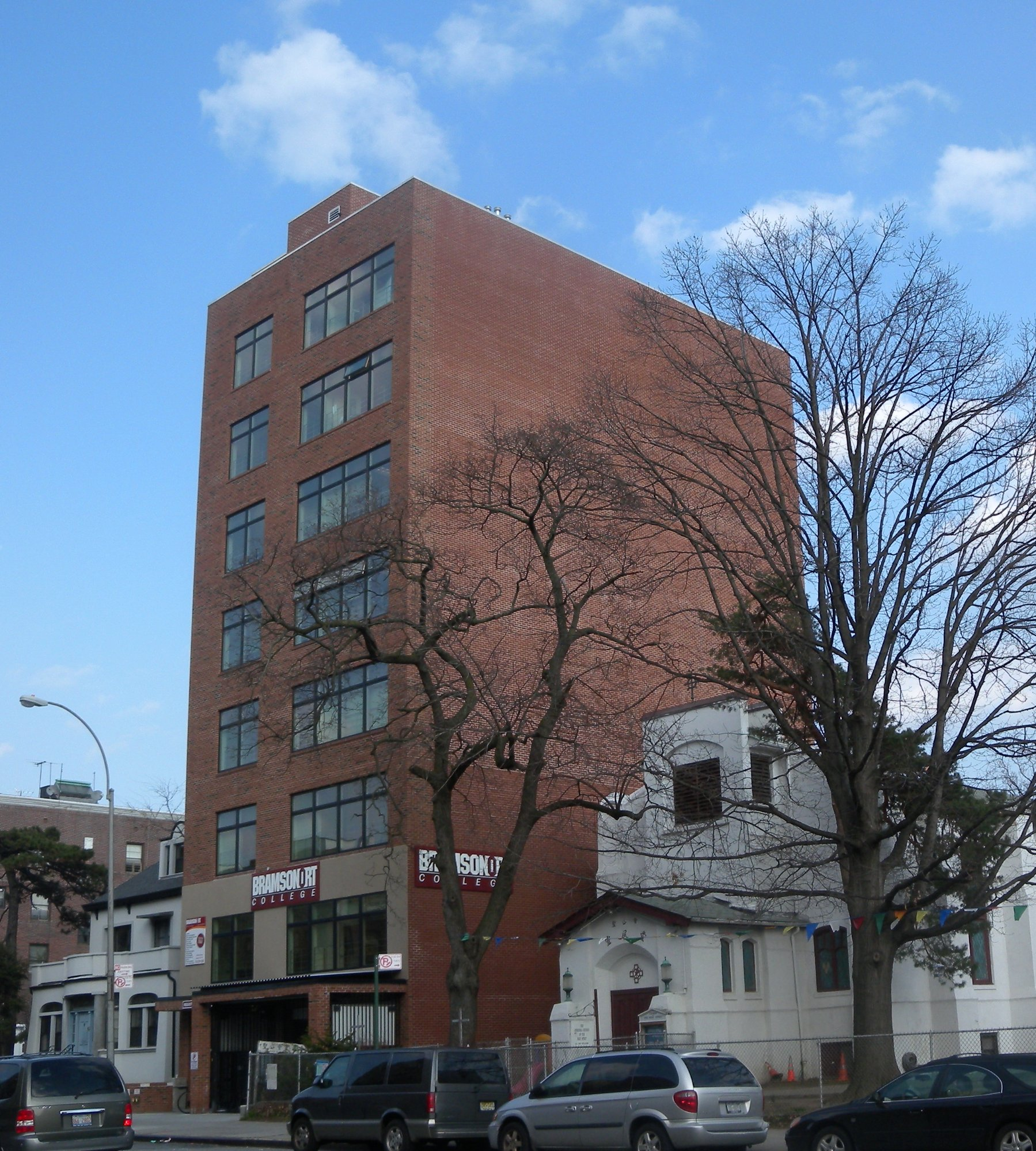 Looking east across Bay Parkway at Bramson ORT on a mostly sunny afternoon.